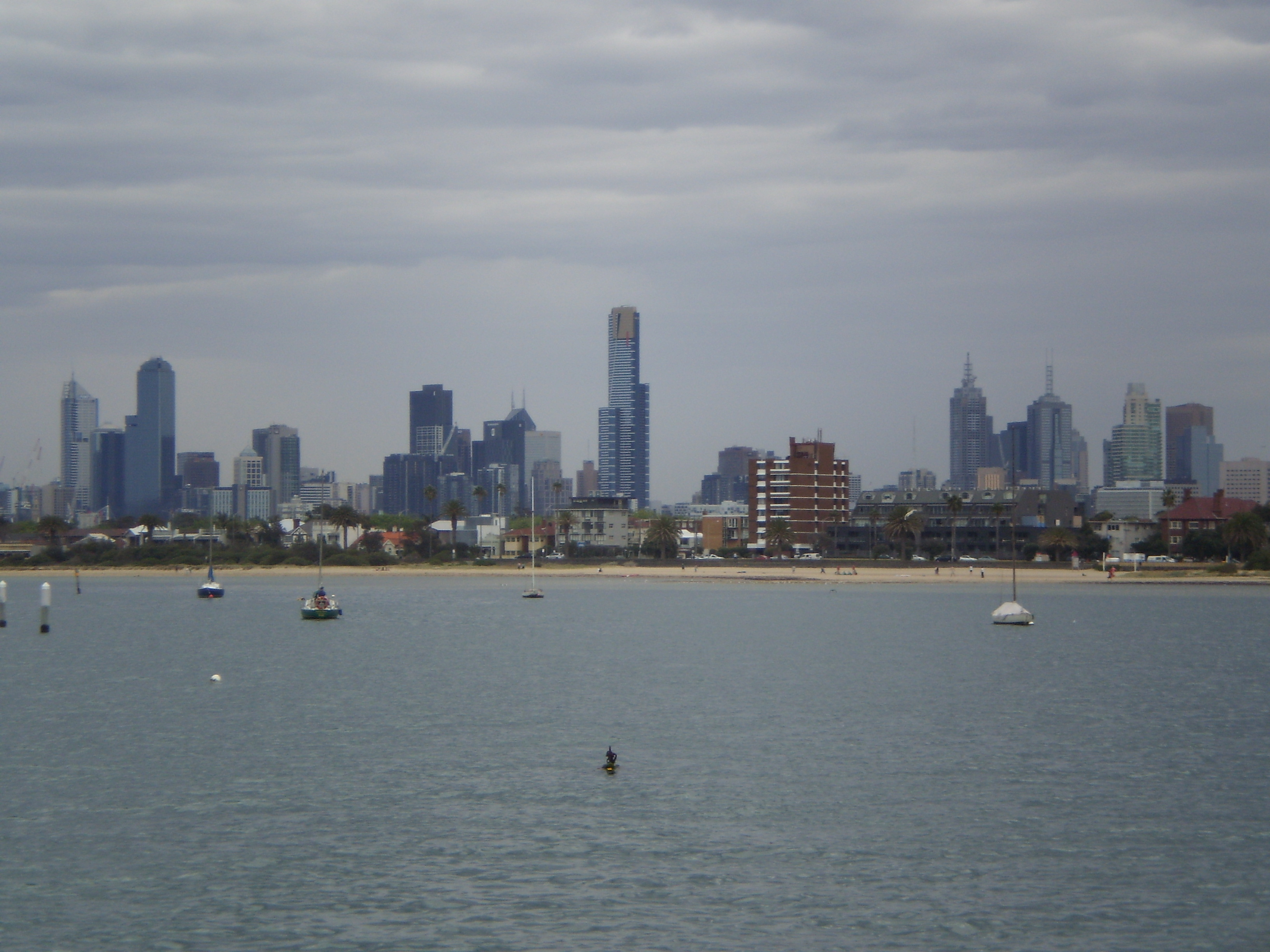 Melbourne, as seen from St Kilda Beach.